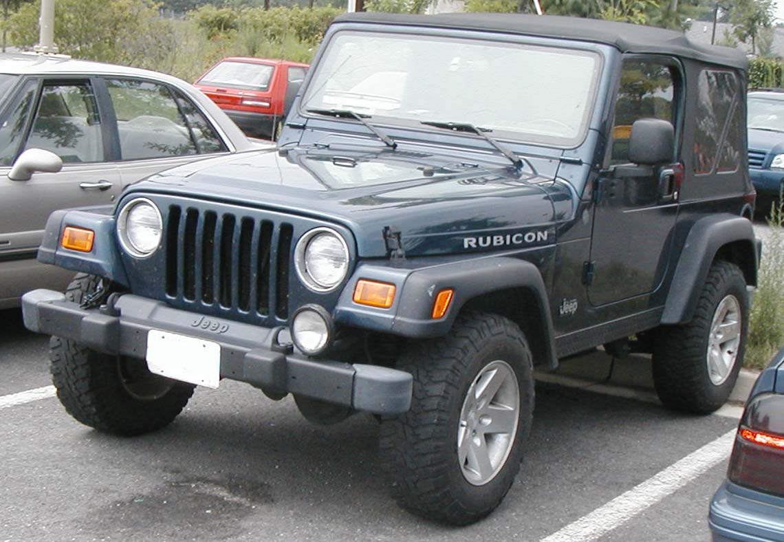 2003-2006 Jeep Wrangler Rubicon photographed in USA.